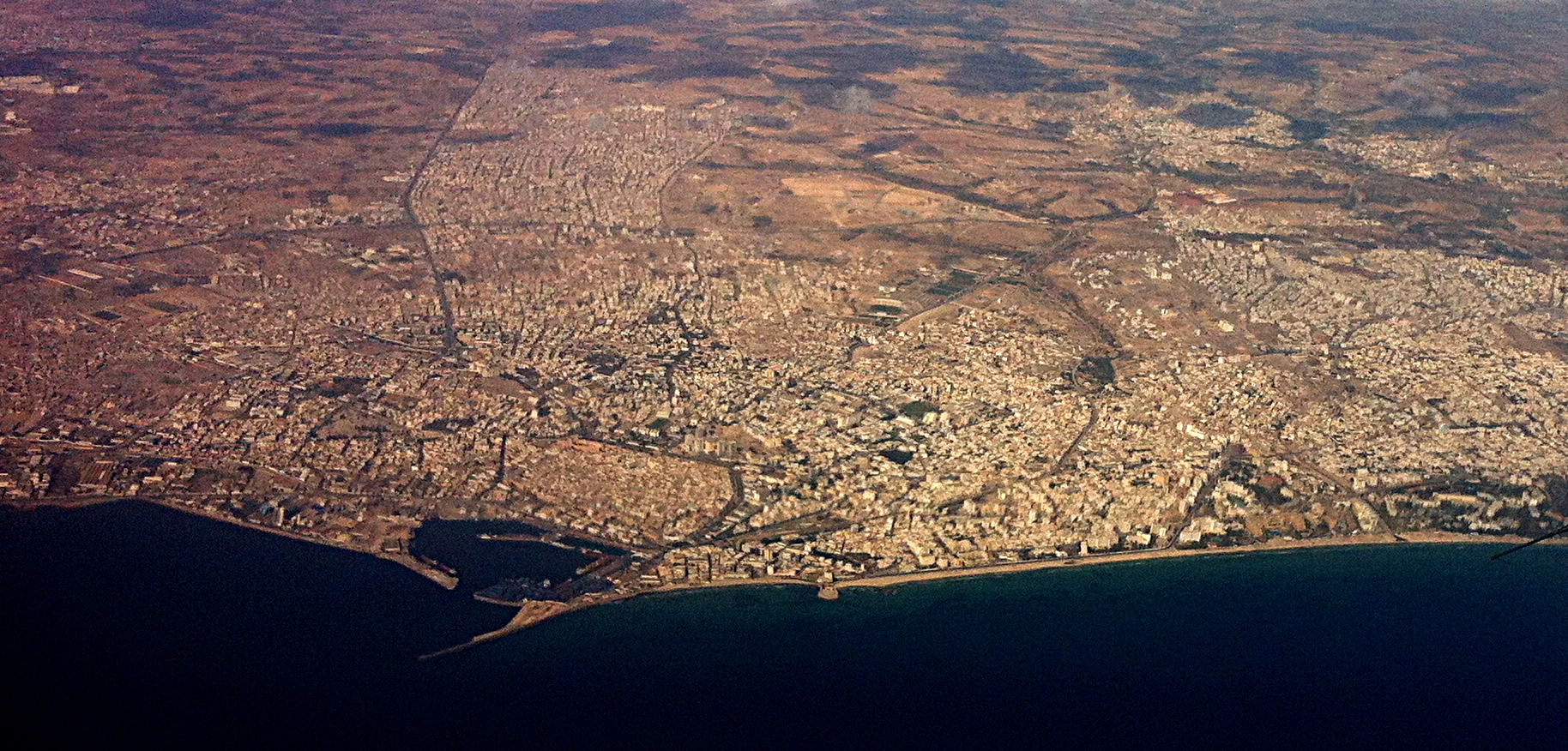 This Photo has been taken with a iPhone 4.